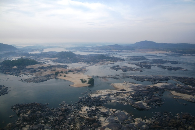 Atures Torrents. Amazonas state. Venezuela.